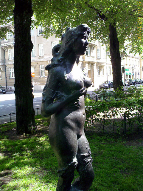 Venus från Austre or Mötande havet, bronze statue by Håkan Bonds (1927–2008), erected in 1980 next to Karlavägen in Stockholm, Sweden.